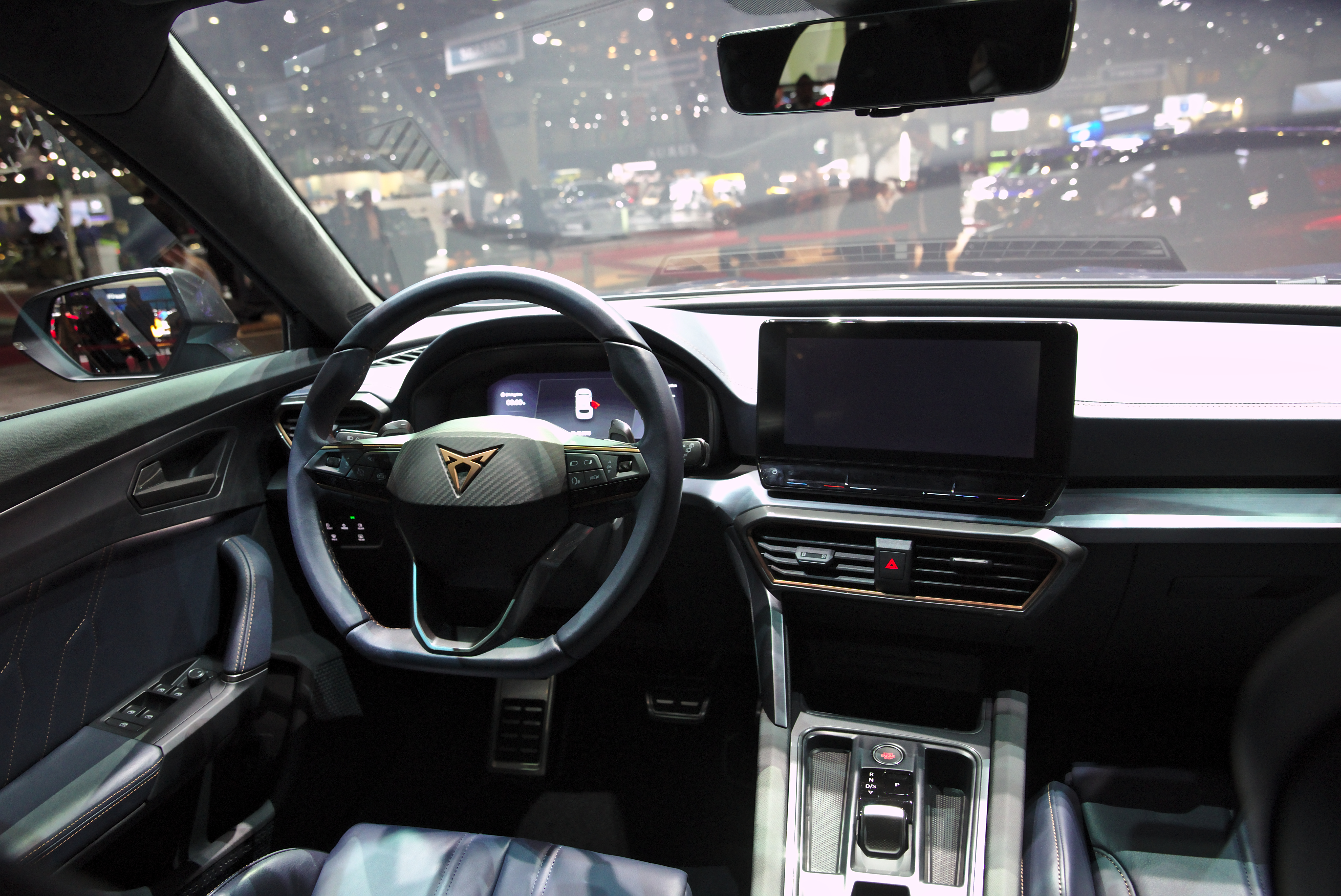 Cupra Formentor at Geneva Motor Show 2019